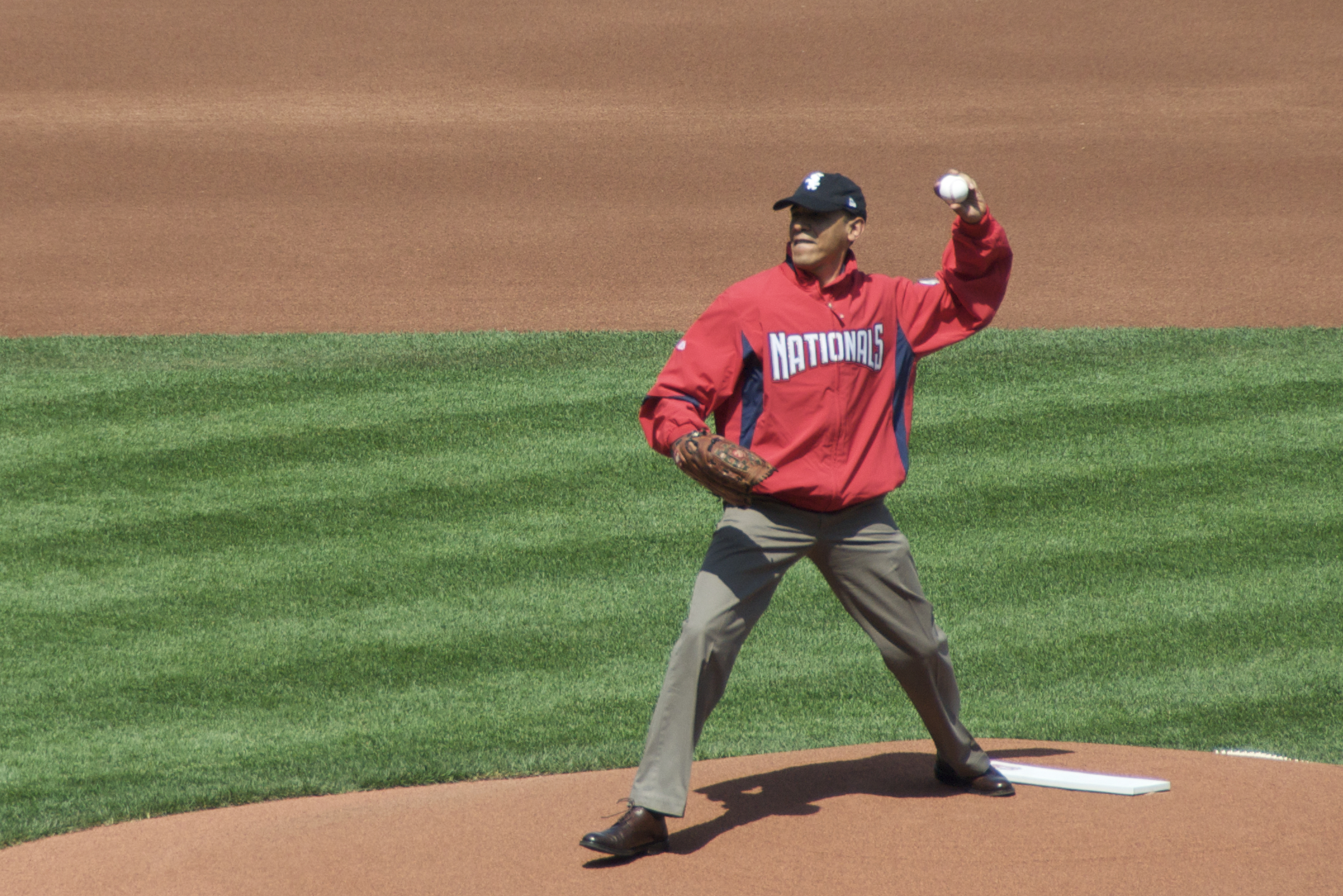 Barack Obama Throws First Pitch 2010 Washington Nationals Opening day game.